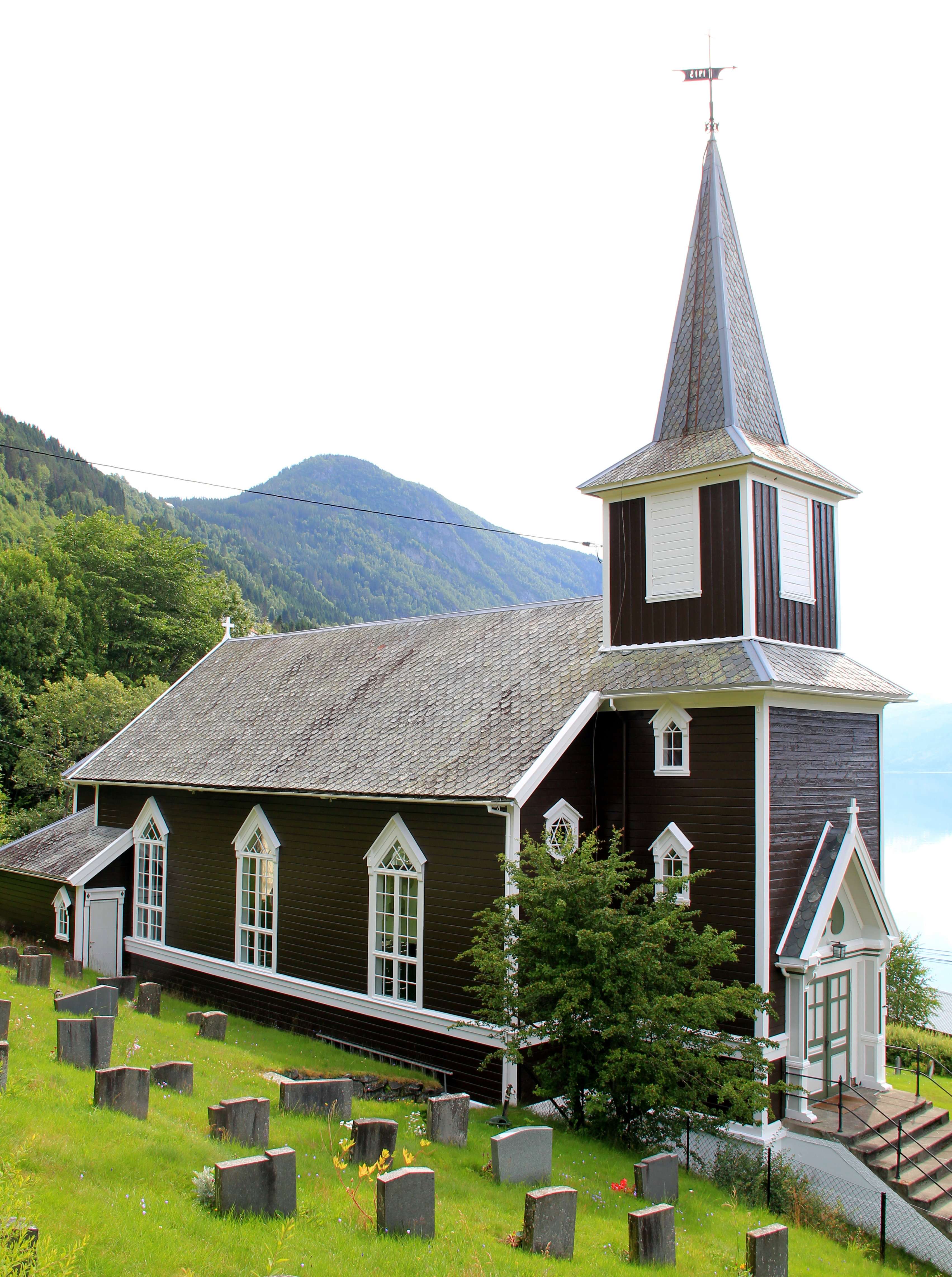 Randabygd kirke